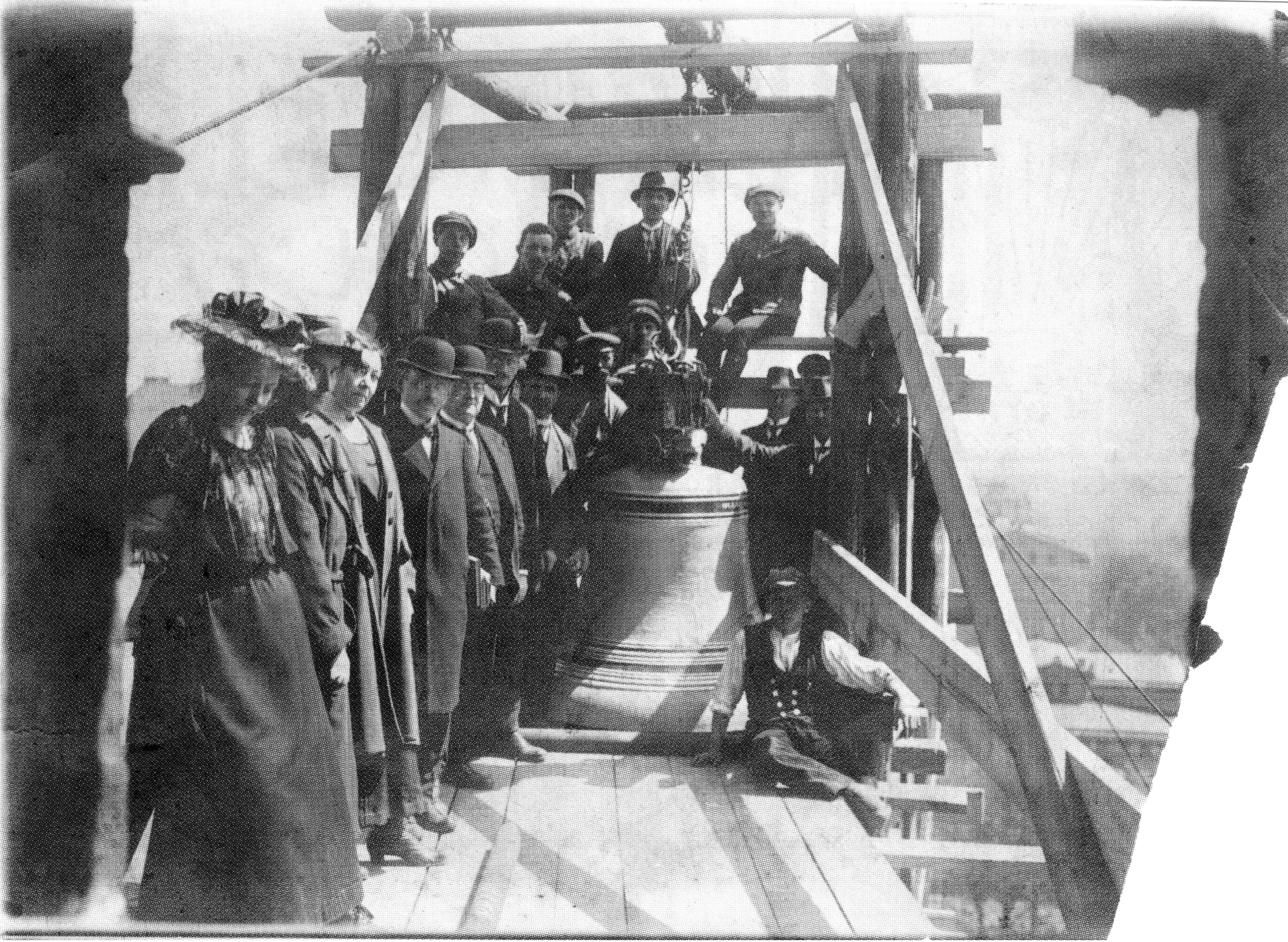 Bell of protestant church in Kattowitz, Upper Silesia.